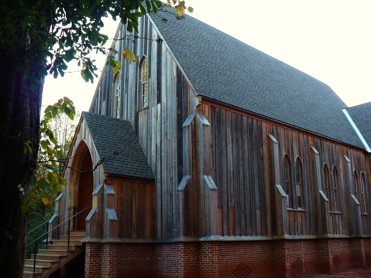 St. Luke's Episcopal Church in Cahaba, Alabama, United States. FRONT & SIDE VIEW, EASTERN & NORTHERN FACADES. Built on Vine Street in Cahaba in 1854 in the Carpenter Gothic style. Moved to Martin's Station, Alabama in 1878, after Cahaba was largely abandoned. Added to the National Register of Historic Places on March 25, 1982. Moved back to Cahaba from 2006-2007 by Auburn University's Rural Project and the Alabama Historical Commission. Restored near the corner of Beech Street (now Cahaba Road) and Capitol Avenue from 2007-2010.